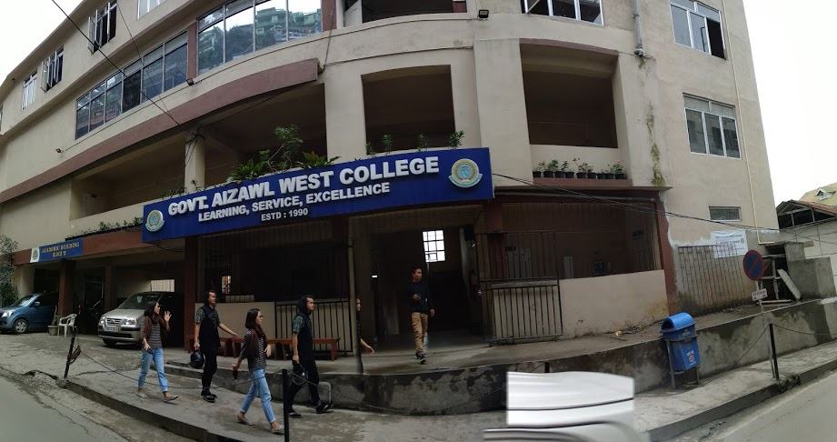 Aizawl West College